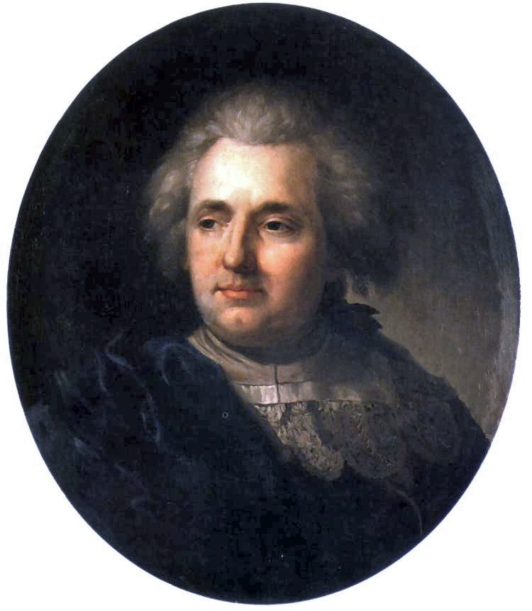 Portrait of Franciszek Smuglewicz (1745-1807)